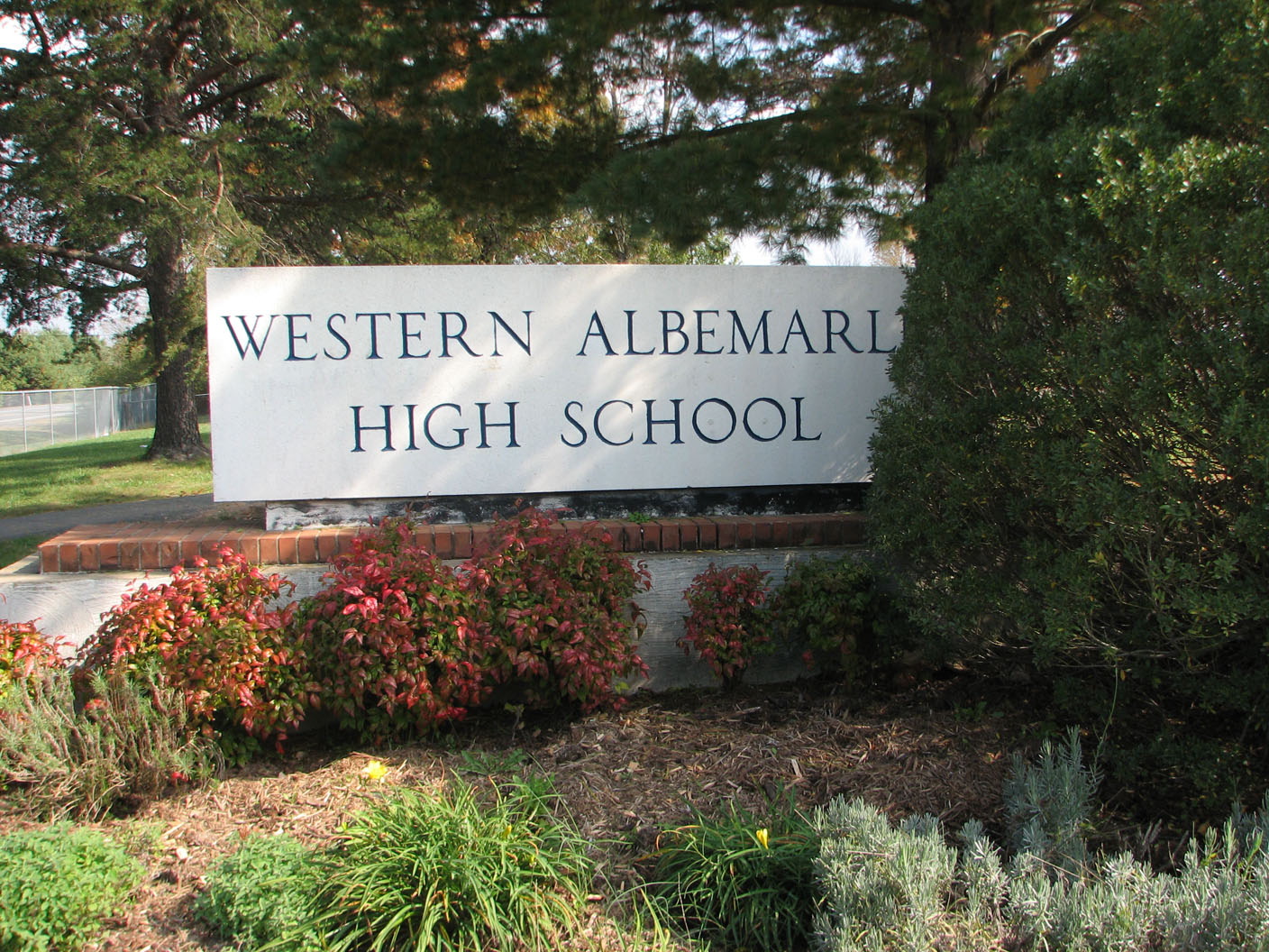 Image of the sign for Western Albemarle High School in Crozet, Virginia. Taken in October, 2006, by RbelAt.